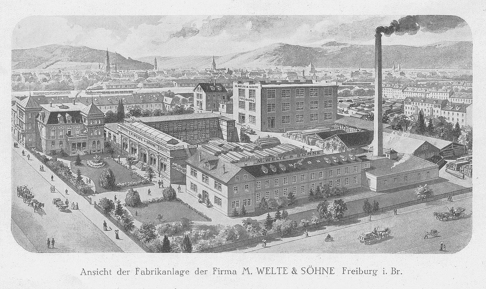 Factory building of M. Welte & Söhne in Freiburg im Breisgau, Germany